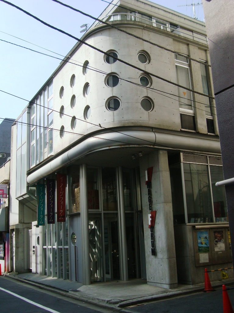 Theater Image Forum, Shibuya, Tokyo